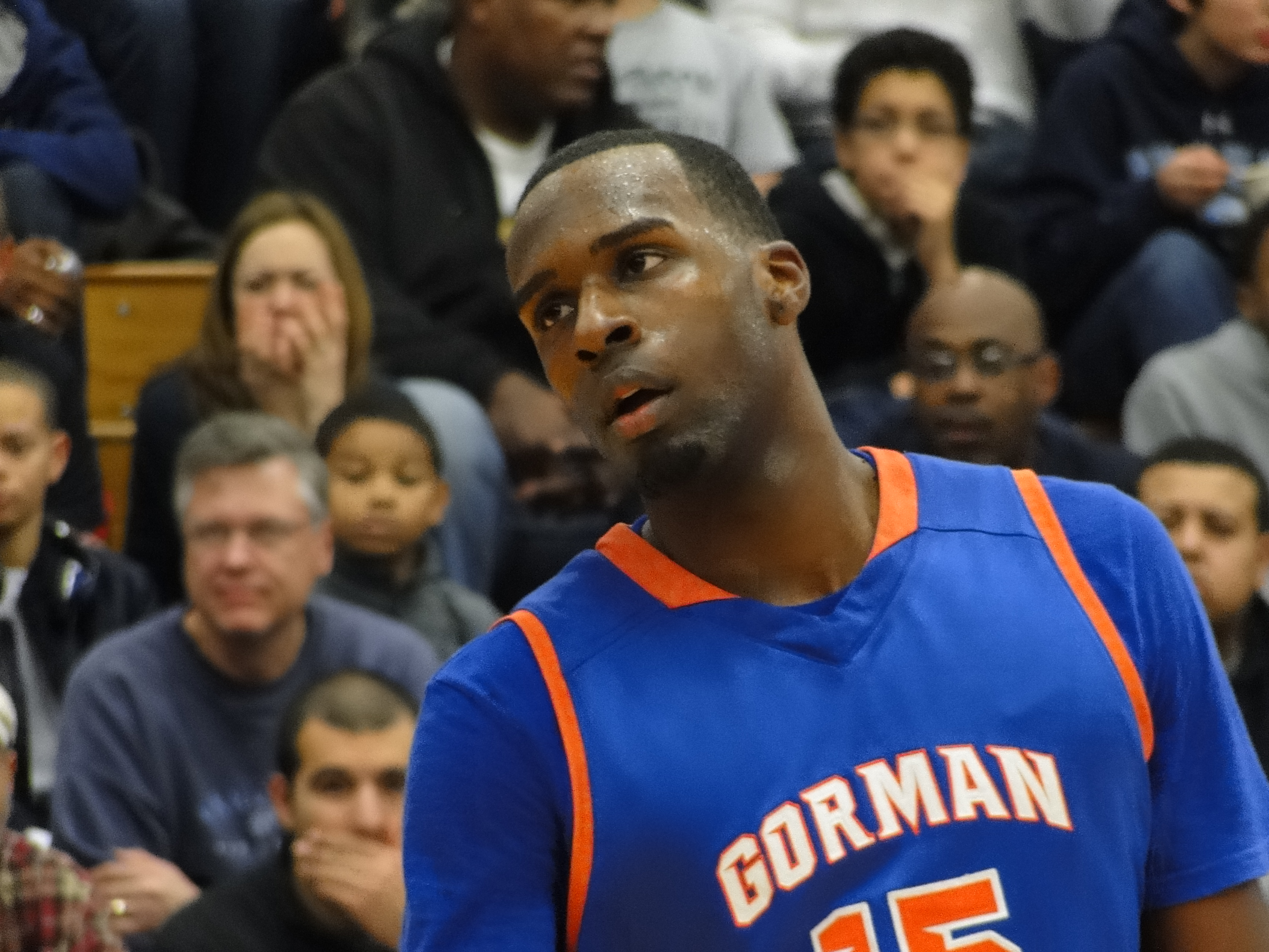 Shabazz Muhammad of Bishop Gorman High School